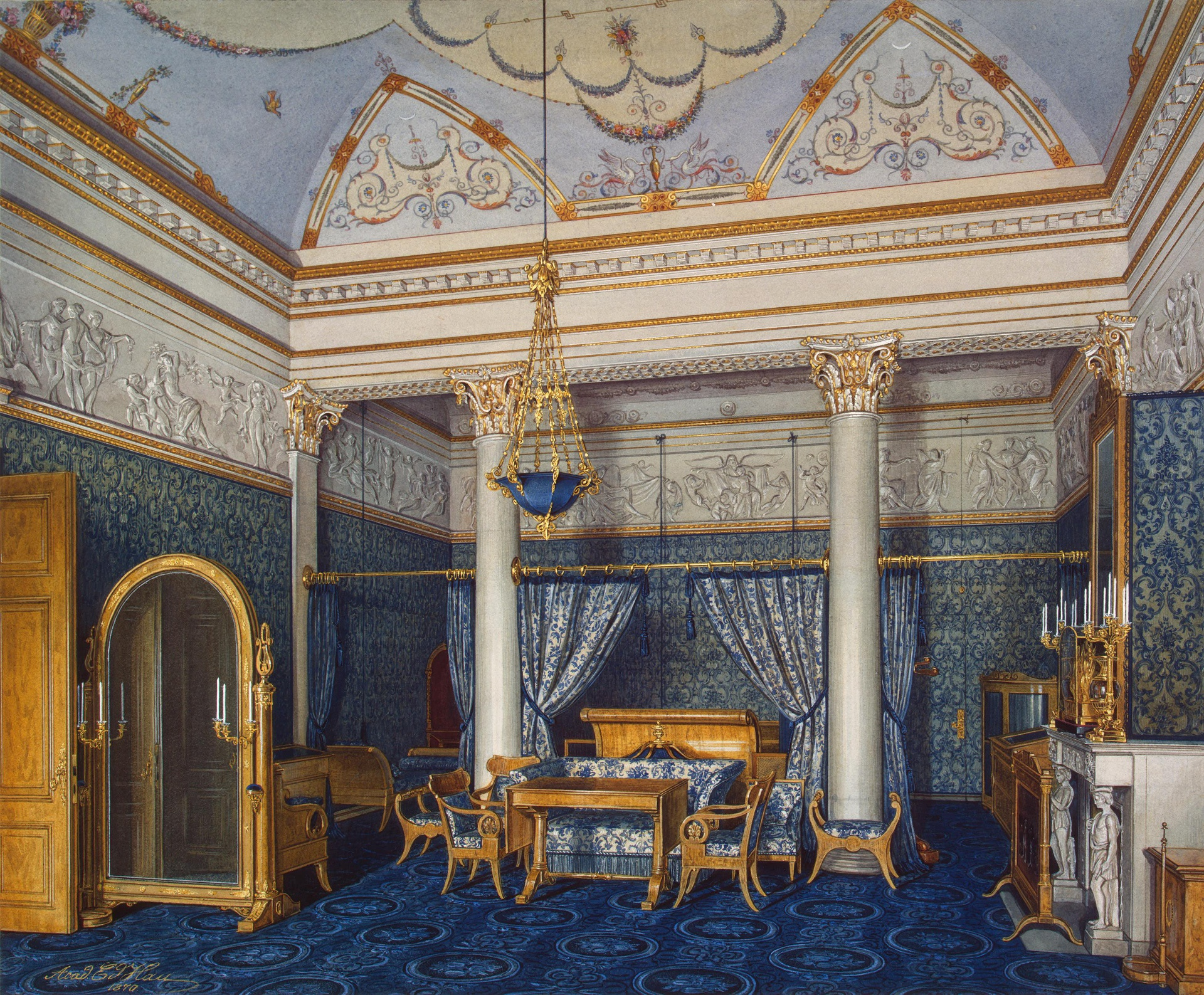 Interiors of the Winter Palace. The Bedchamber of Empress Alexandra Fyodorovna